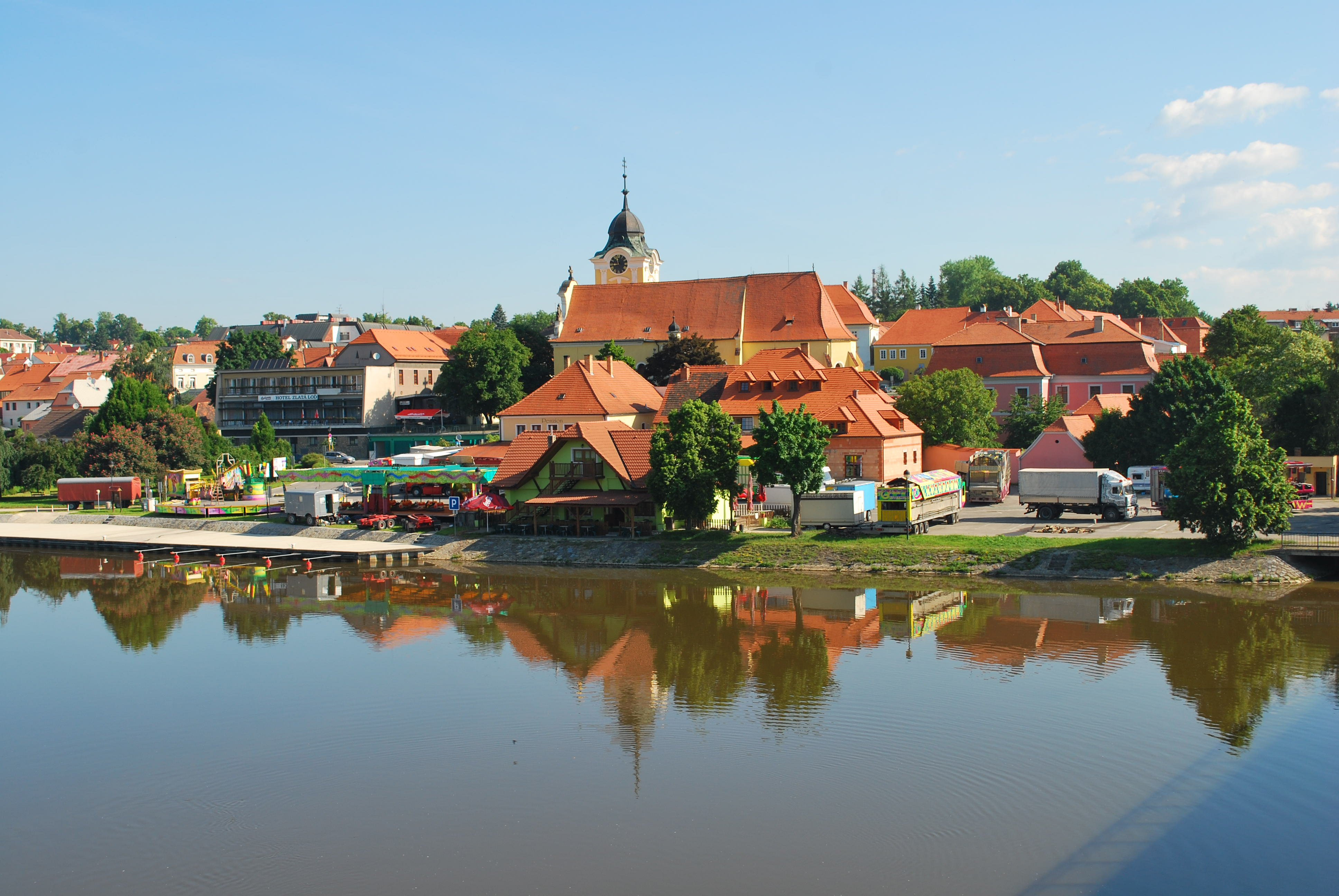 Týn nad Vltavou